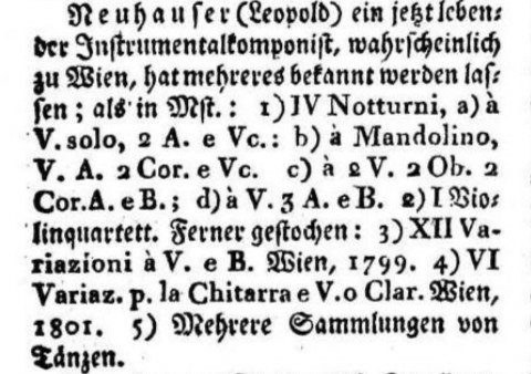 Text from 1813 book, New historical-biographical lexicon of Tonkünstler, third volume.